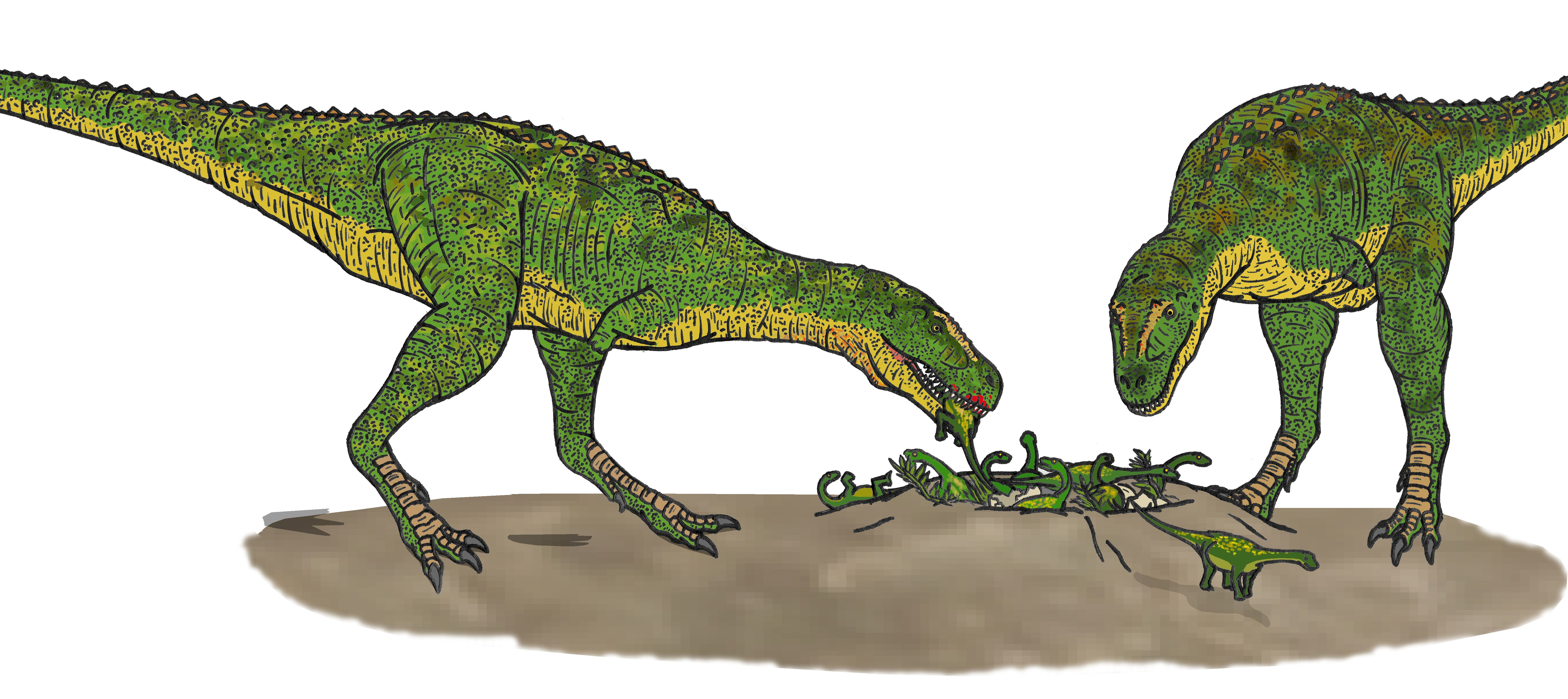 Depiction of a pair with Aucasaurus attacking a nest with baby Titanosaurids. Links. Aucasaurus skeleton.